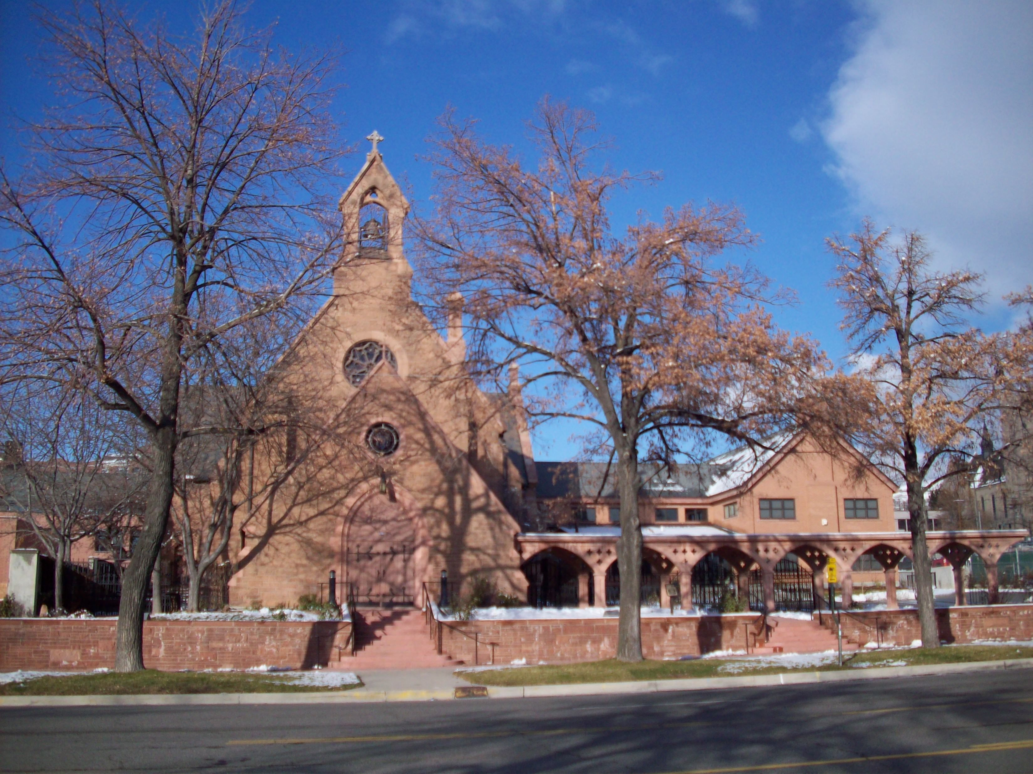 Front of St. Mark's Cathedral, located at 231 E. 100 South in Salt Lake City, Utah, United States. Built in 1871, it is the cathedral church of the Episcopal Diocese of Utah, and is listed on the National Register of Historic Places.